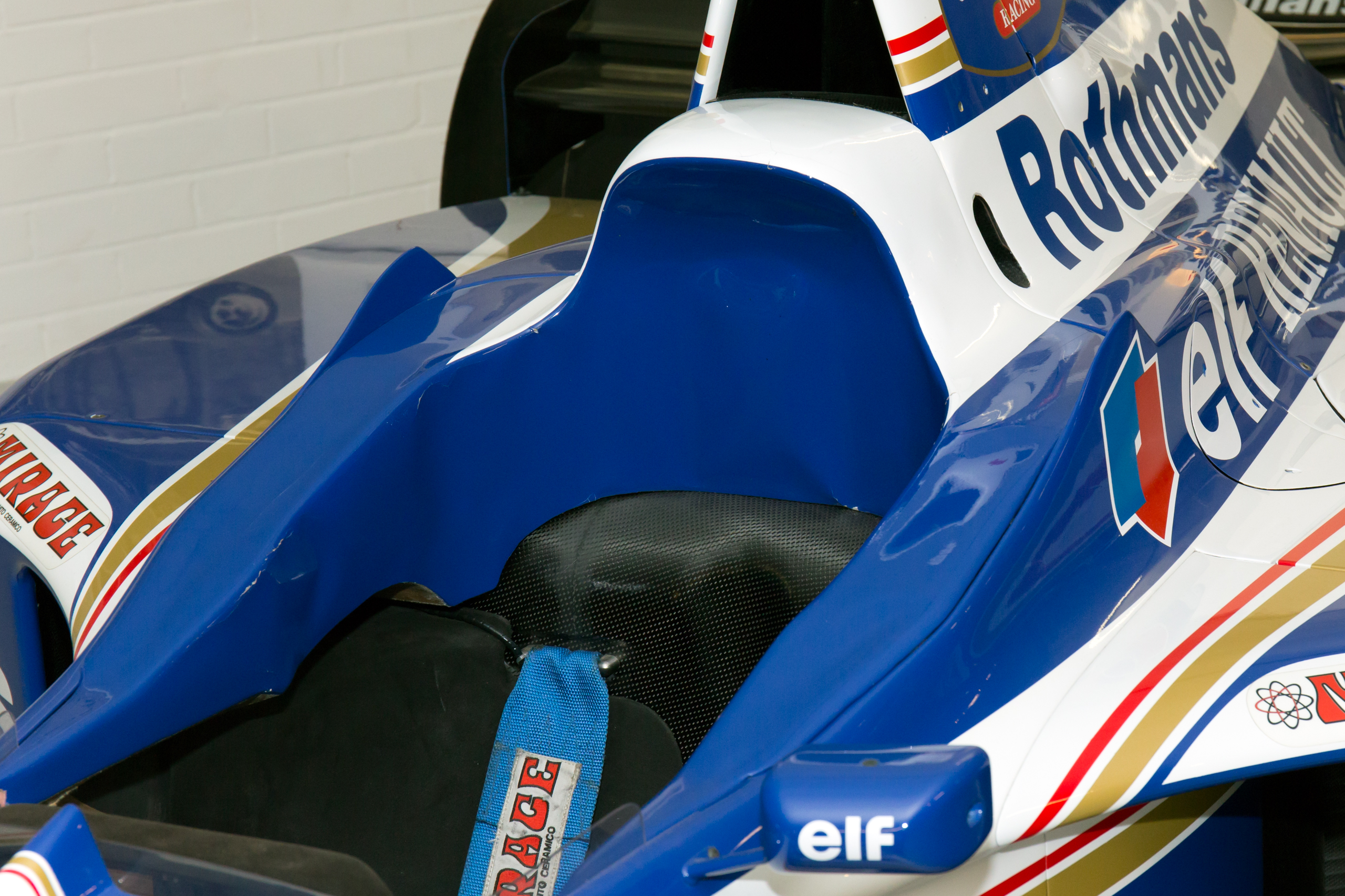 1996 Williams FW18 (#5 Damon Hill); driver protection